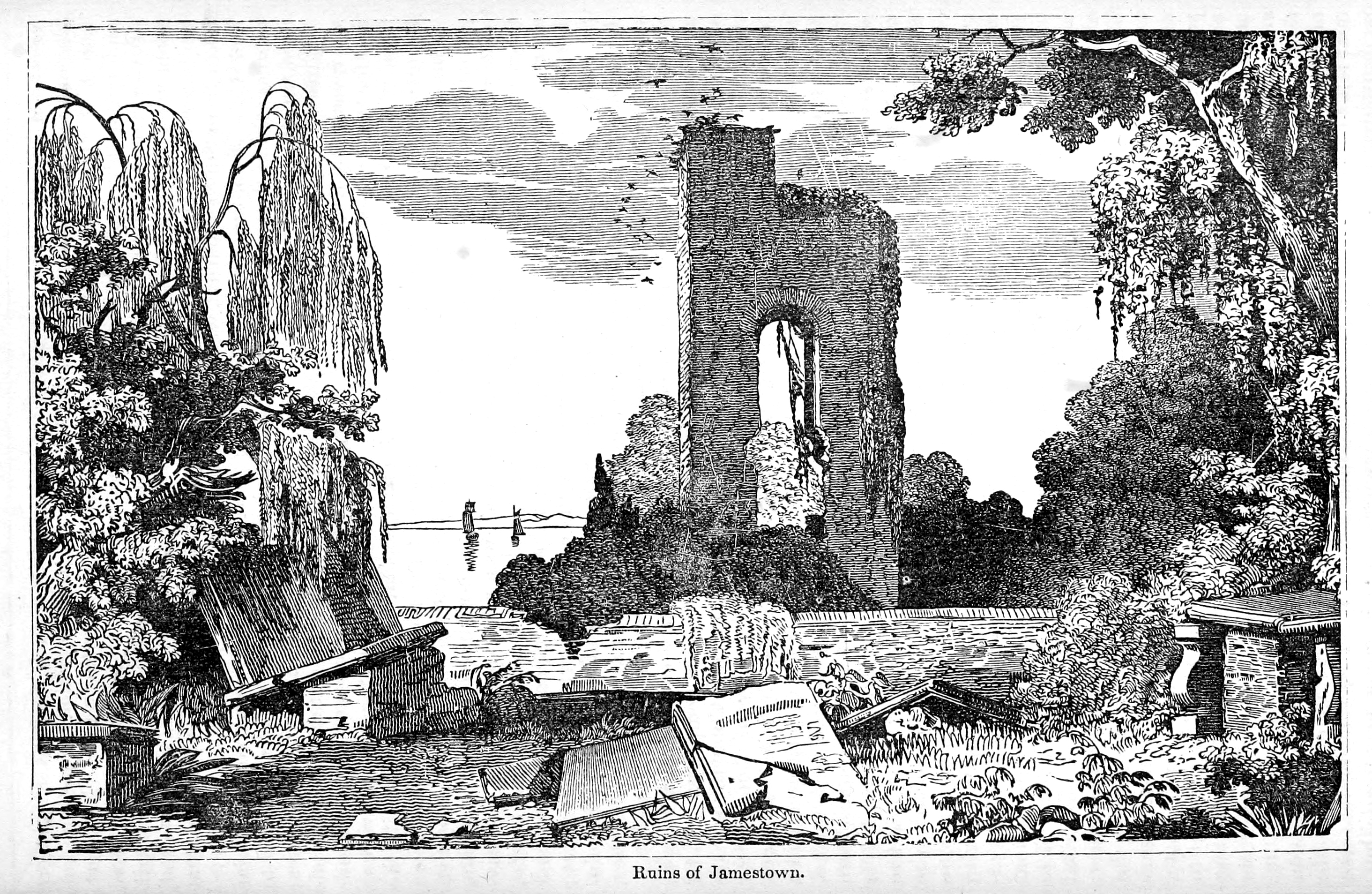 Image of the ruins at Jamestown, Virginia, USA from: Robert Sears, A pictorial description of the United States (s.n., 1854), pg. 315